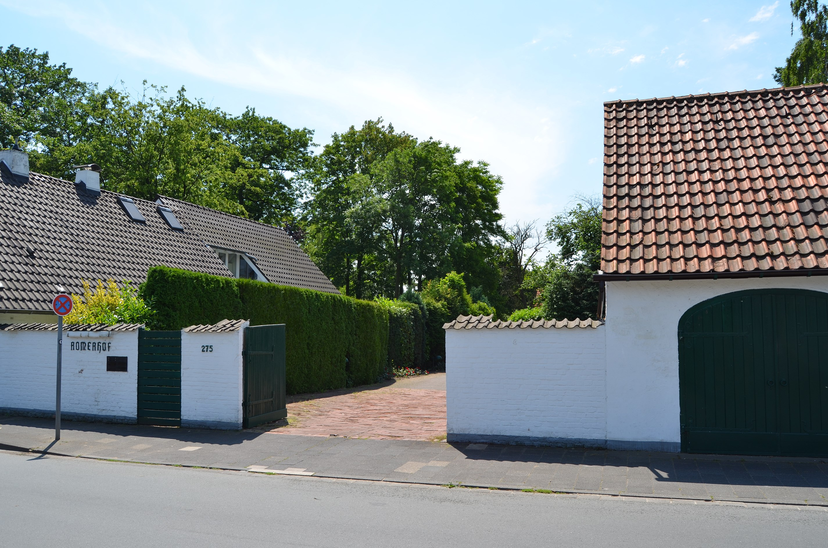 Düsseldorf (North Rhine-Westphalia, Germany) – Wittlaer – farm "Römerhof" This photograph was taken with a Nikon D7000.